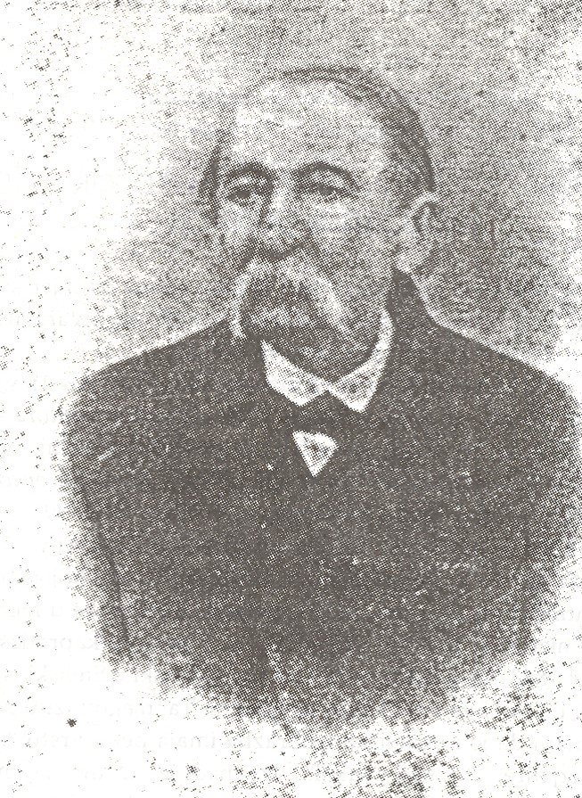 Gergely Guszich or Grgo Gusić (1821-1894) Burgenland Croatian poet and teacher